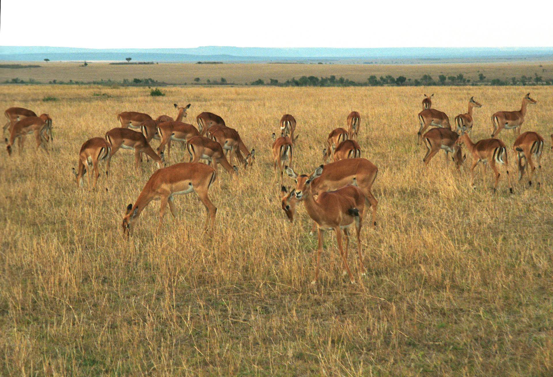 Impala at Masai Mara, Kenya